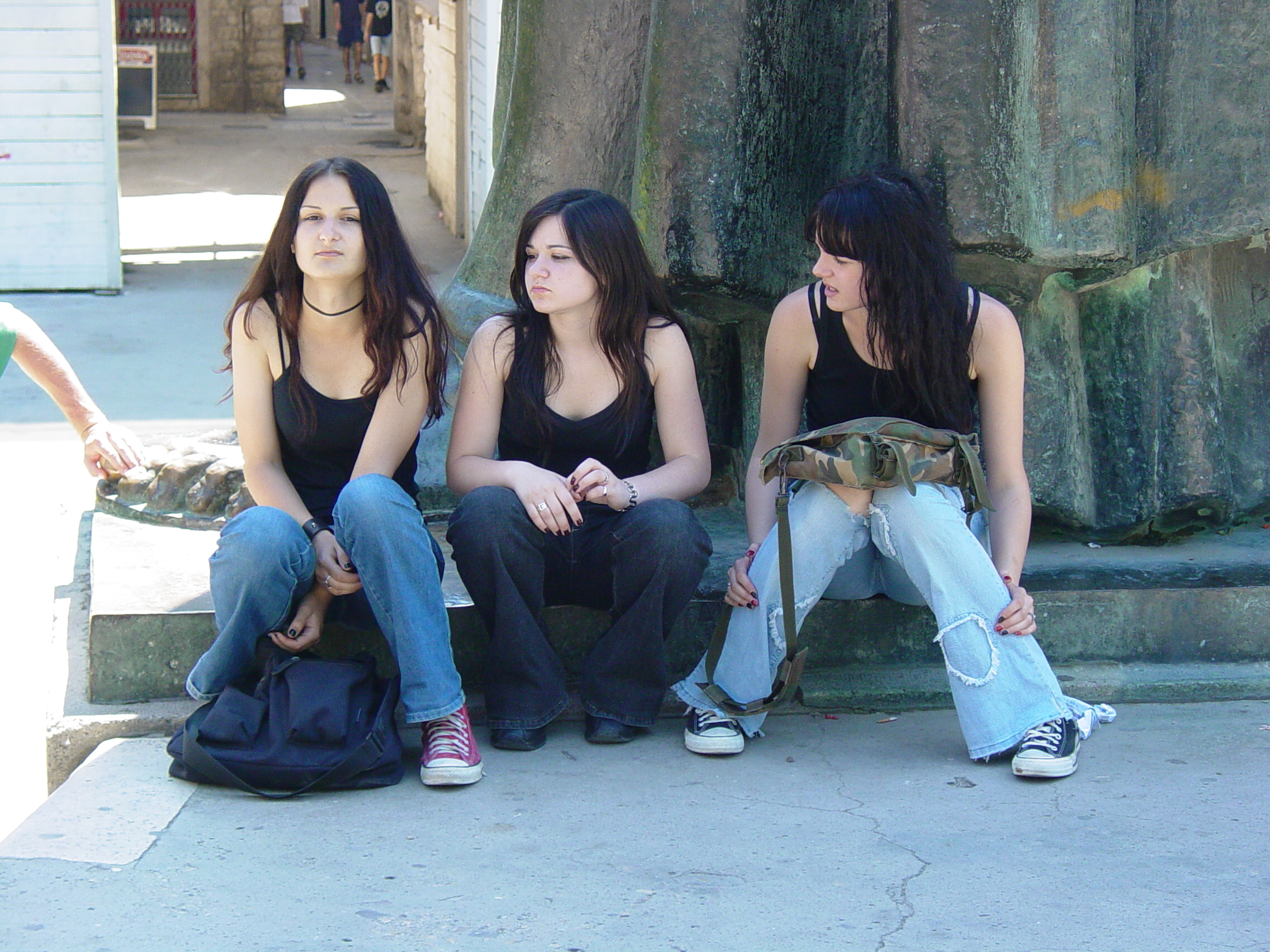 Young women sitting below the Gregor statue (Grgur Ninski), Split, Croatia. June 2004.